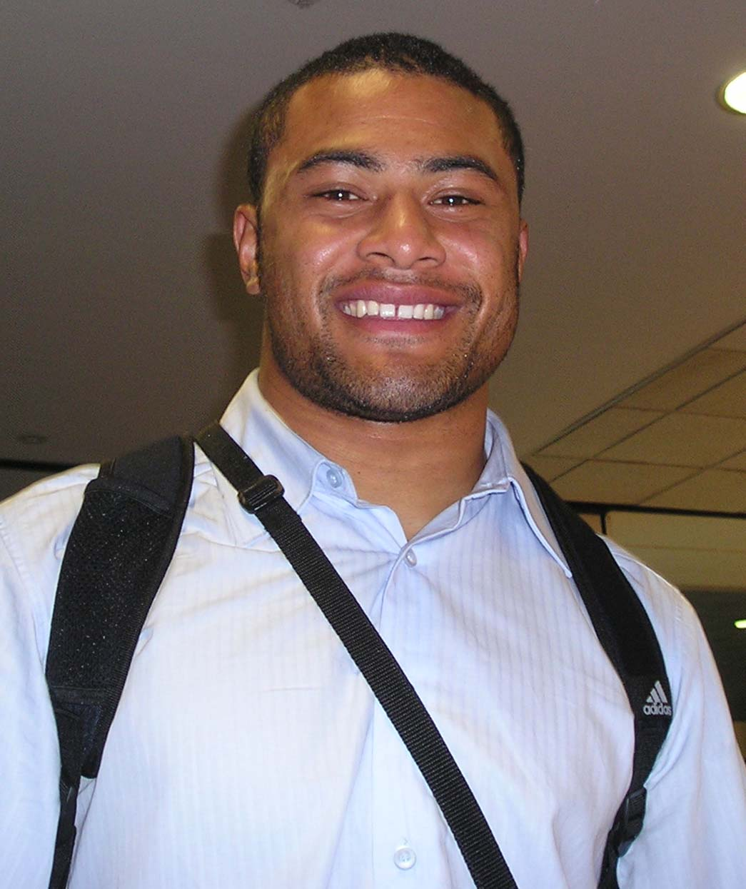 All Blacks three-quarter